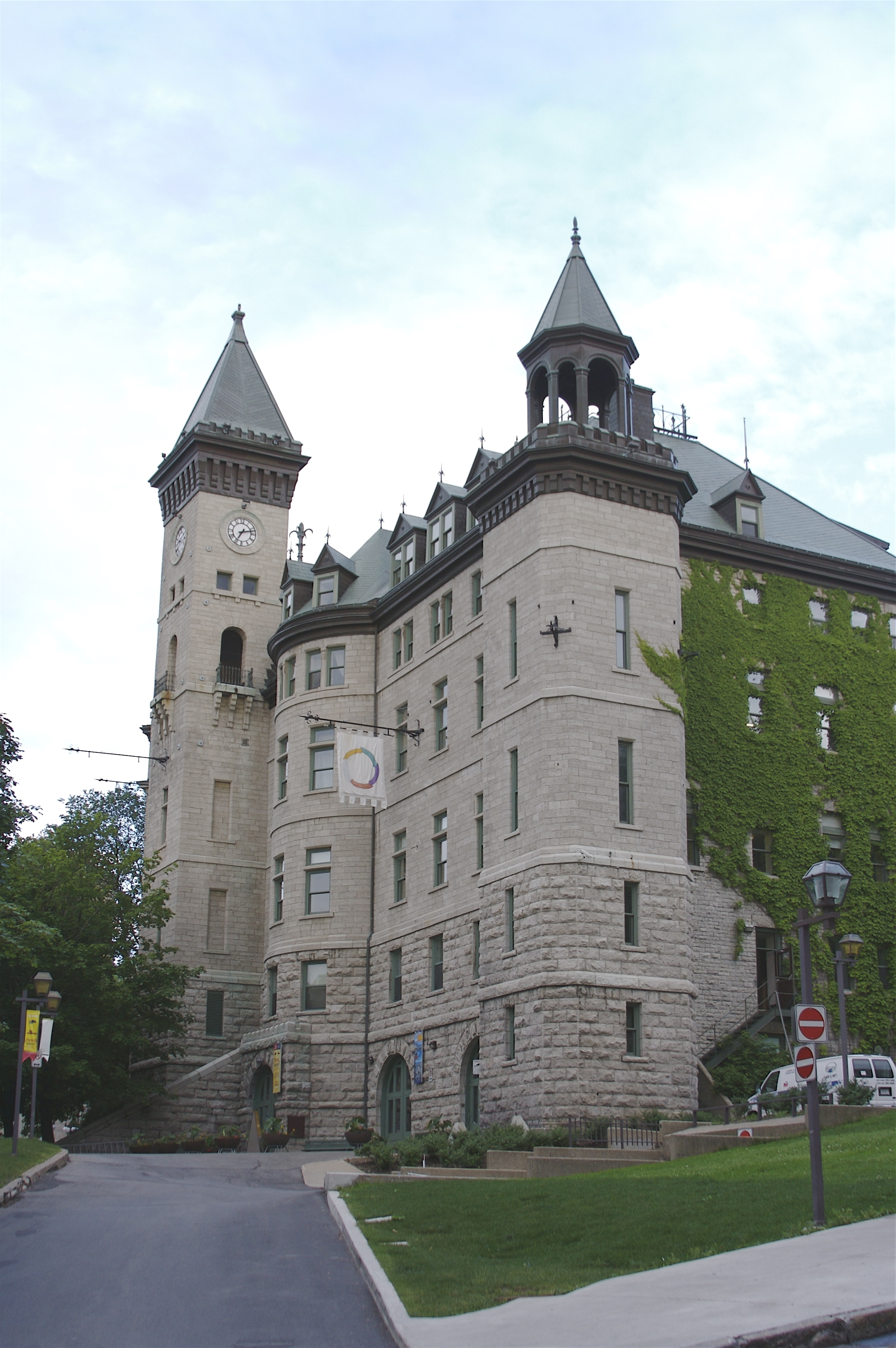 Old City Hall in Vieux Quebec.